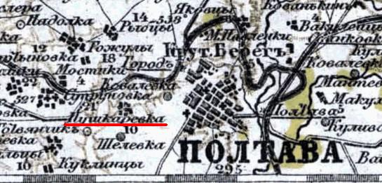 Pushkarivka village, Poltava region, Ukraine, 1916